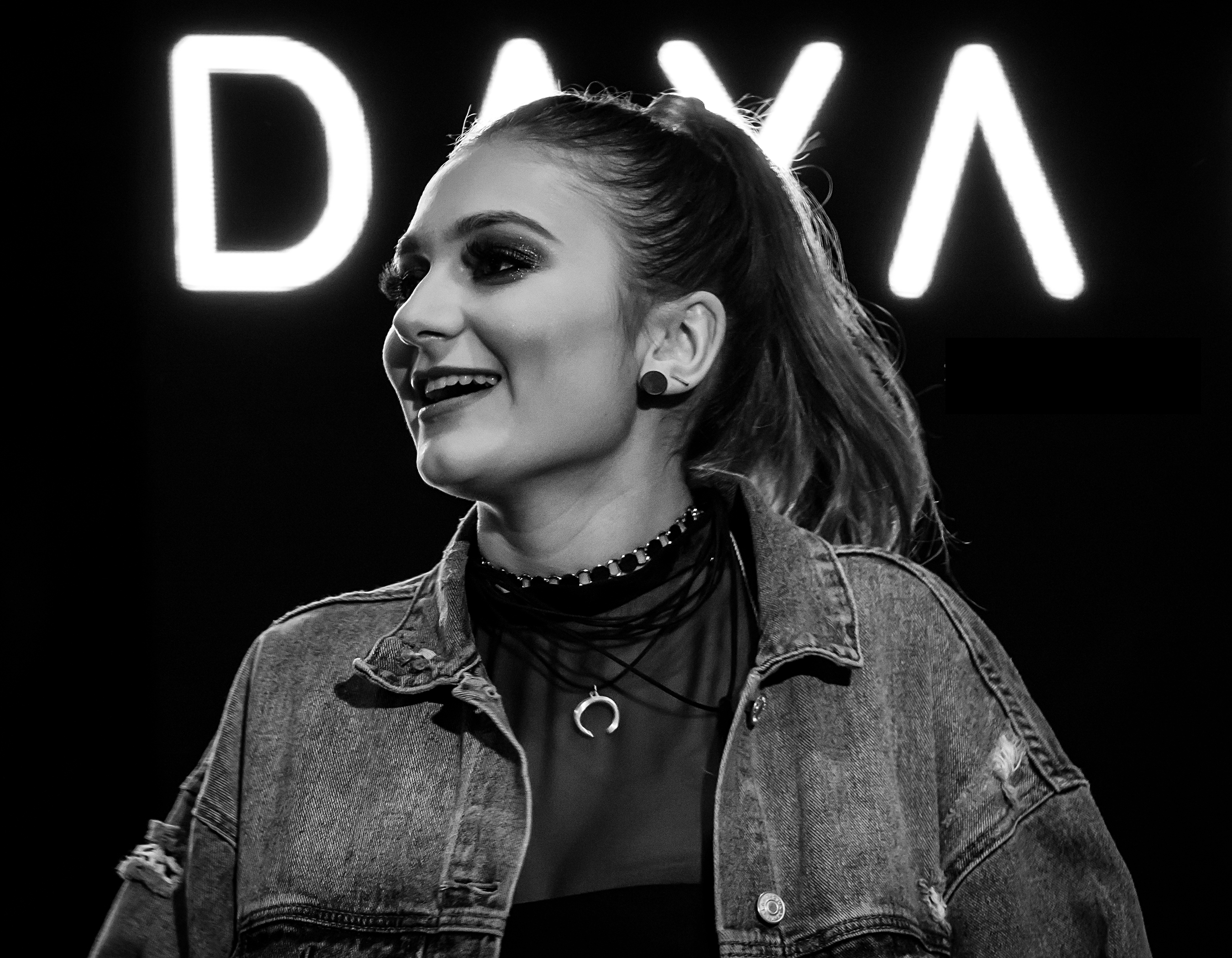 Daya at the KIIS FM Jingle Ball Village